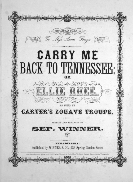 Sheet music to "Carry me back to Tennessee" or "Ellie Rhee"